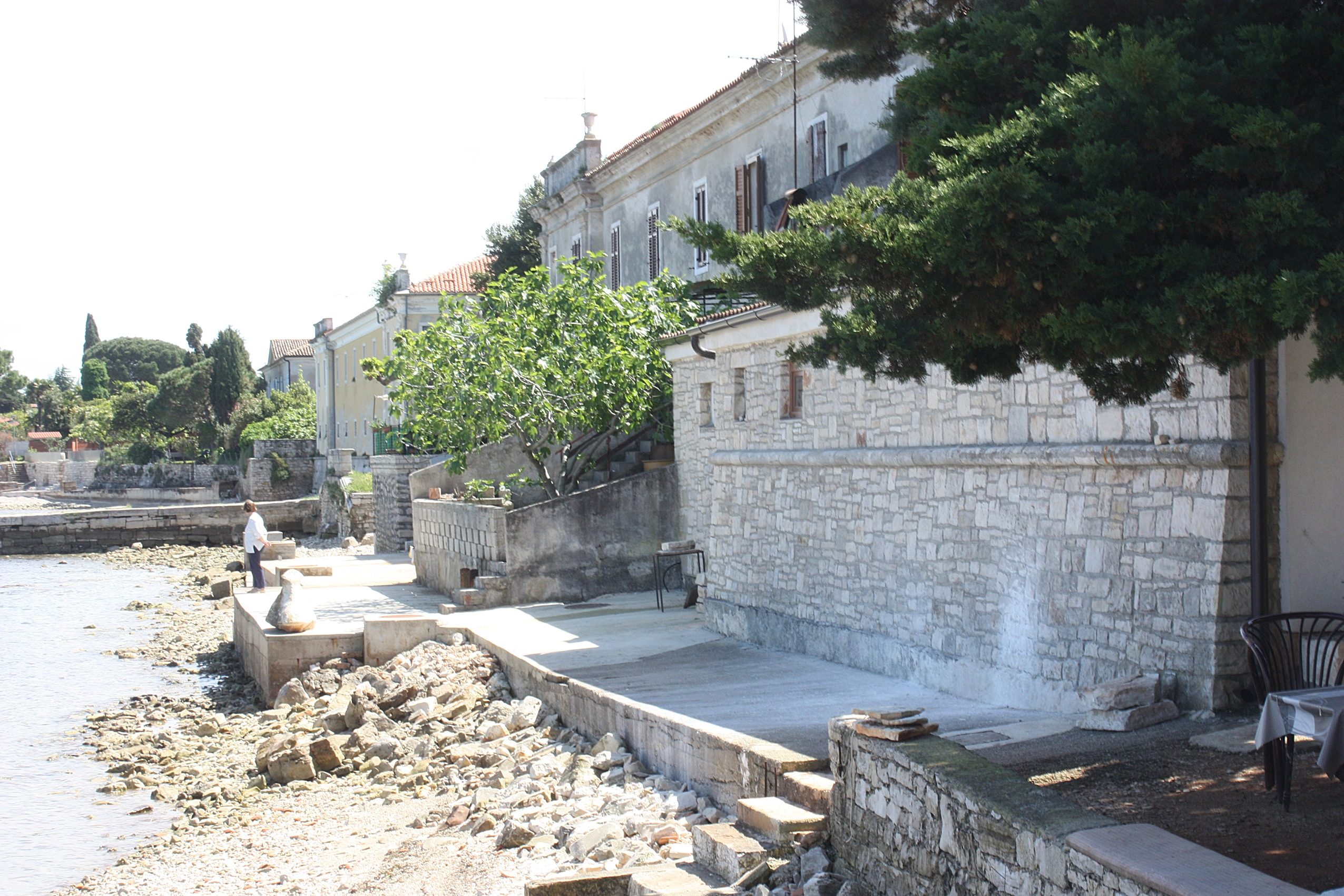 Dajla (Novigrad}, the seaside of the former monastery